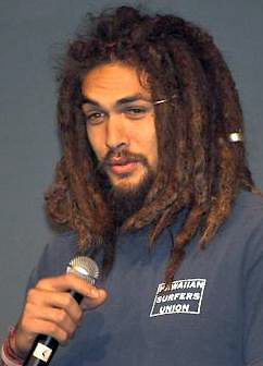 Jason Momoa at Wolf Pegasus One, London, 2006